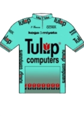 cycle jersey